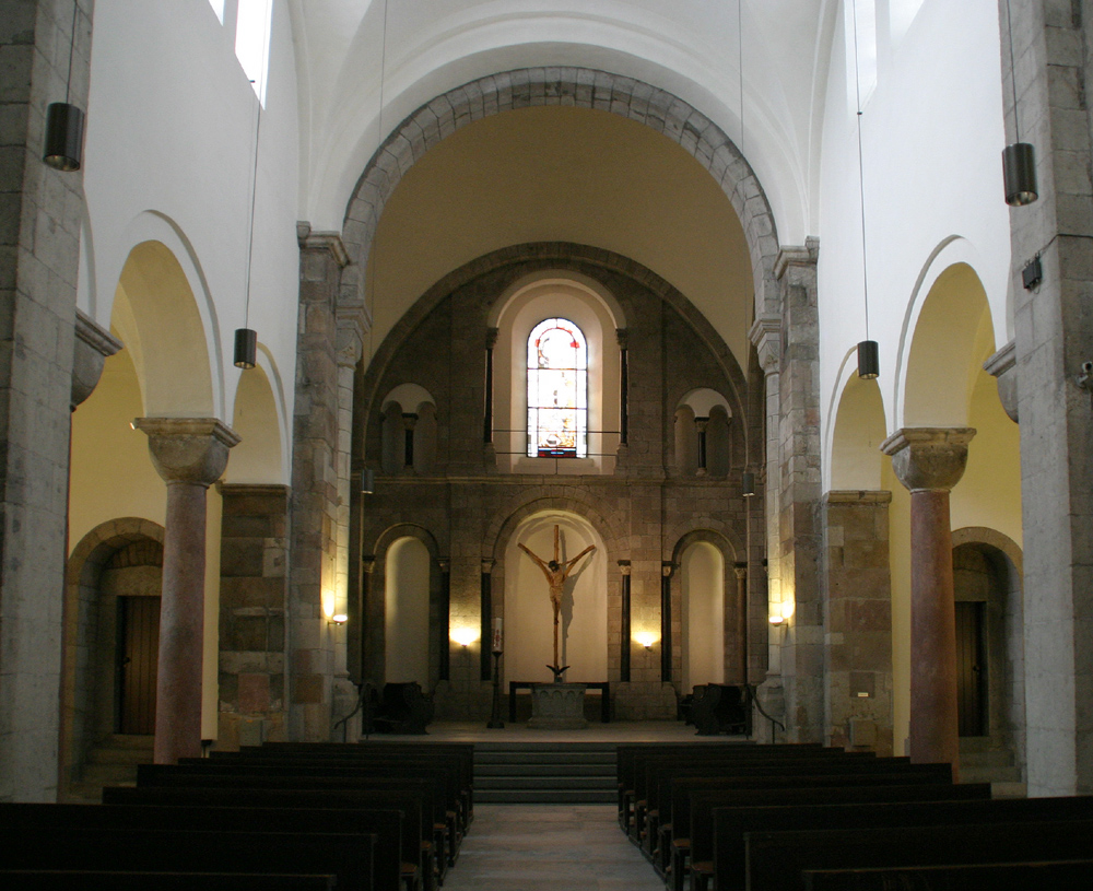 Romanesque church St. George in Cologne, Germany. View to the eastern quire with crucifix („Pestkreuz“)